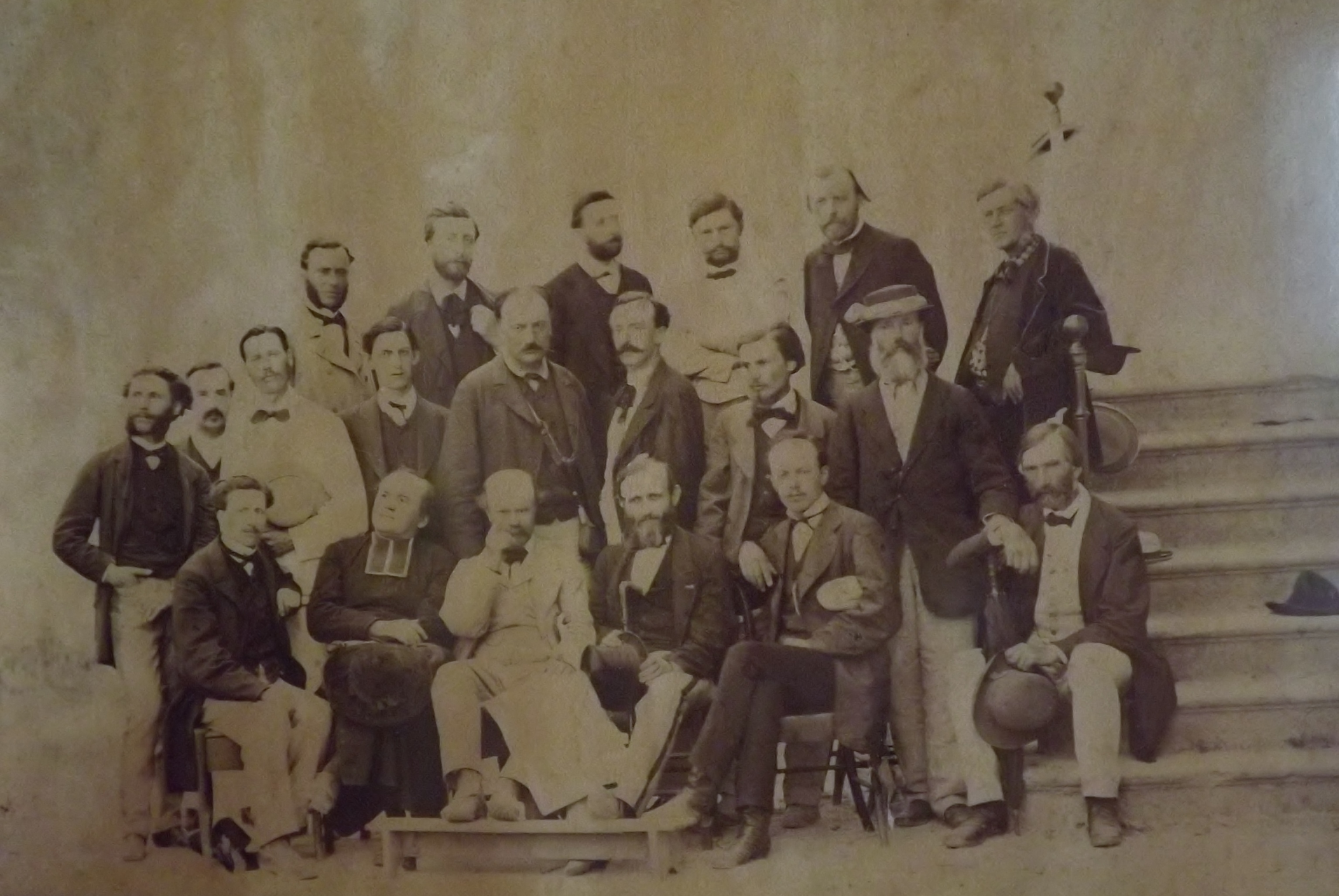 First known photograph of the Académie de Savoie members, with César d'Oncieu de la Bâthie as president, in Chambéry (Savoie, France) in 1870.